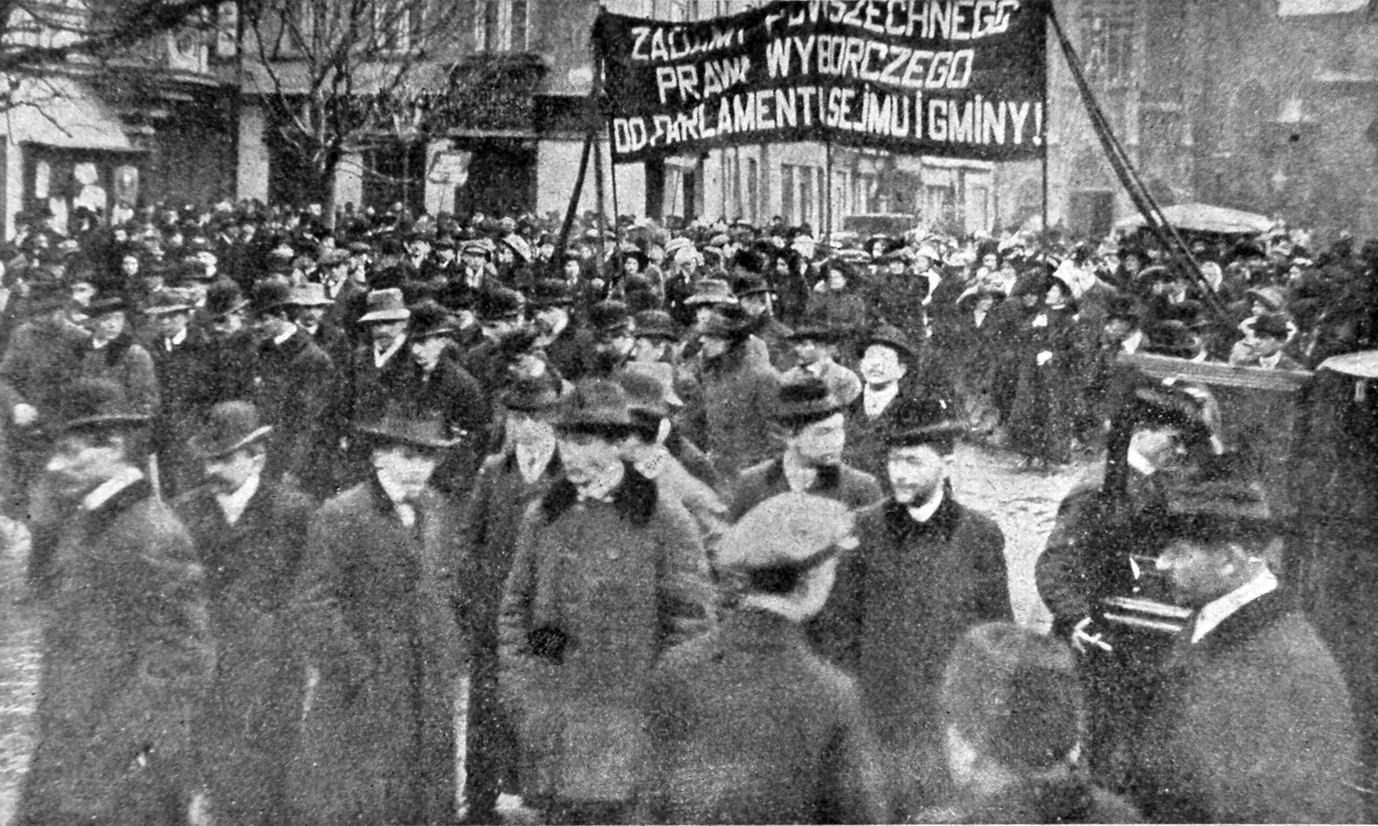 Suffragettes in Cracow (Poland). Women's Day in 1911.